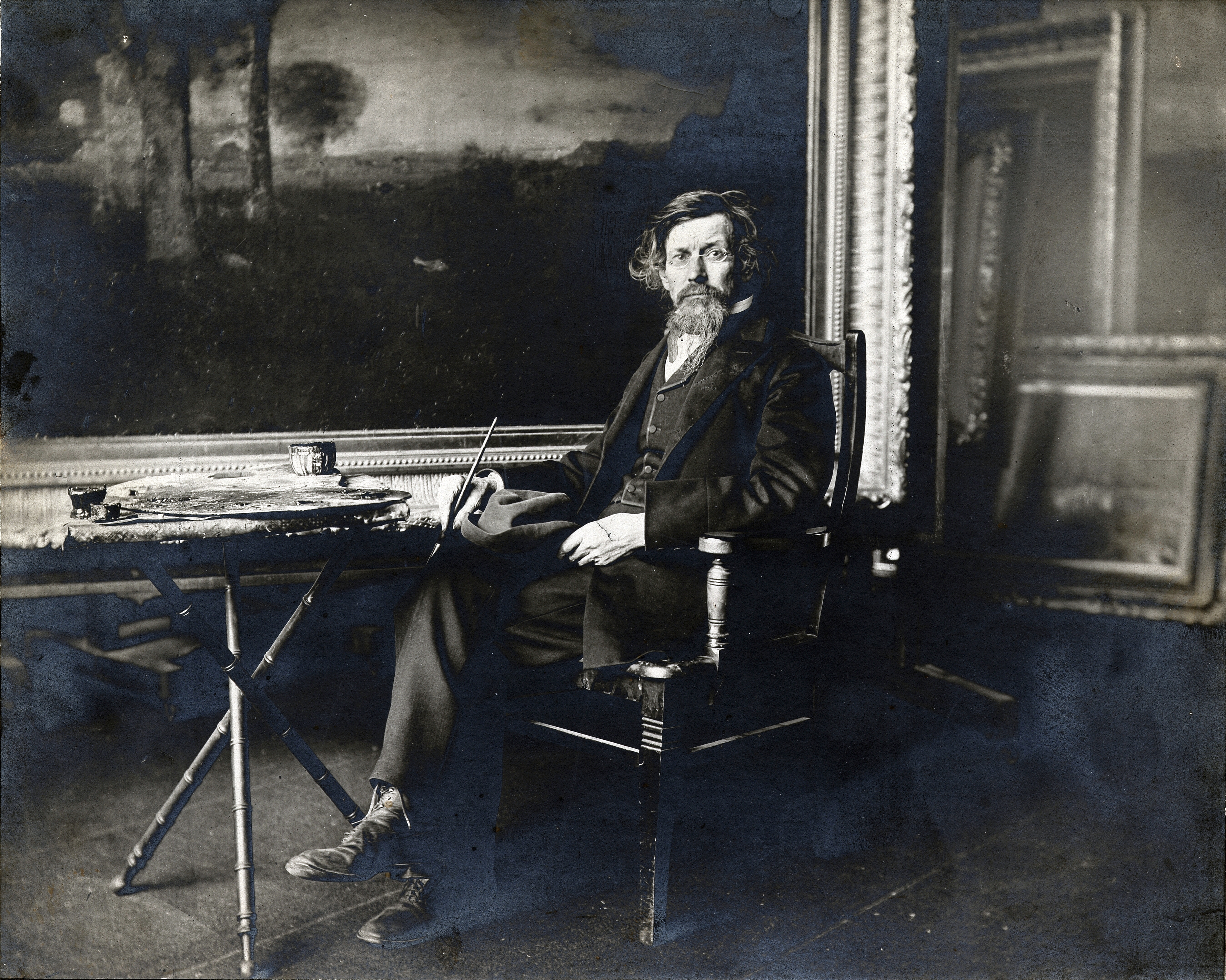 George Inness, American landscape painter